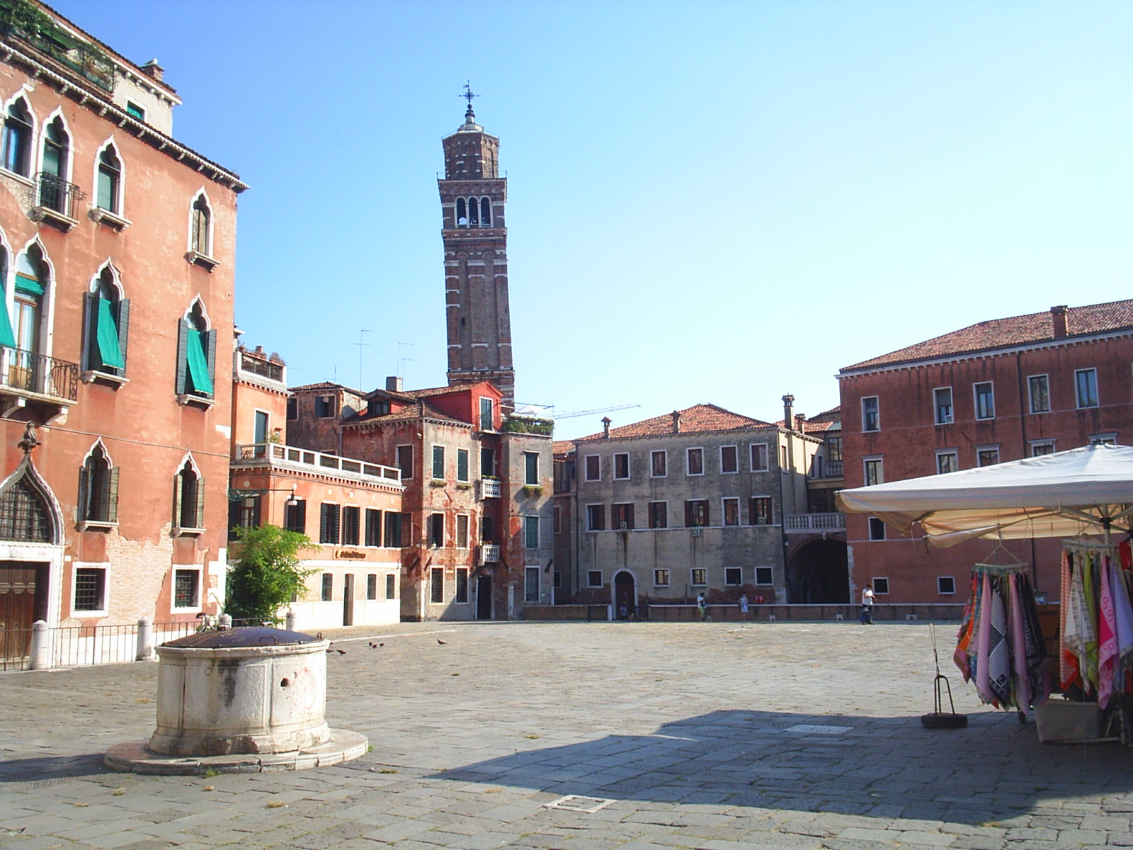 Campo Sant'Angelo — in the San Marco sestiere of Venice. Campanile of Santo Stefano church in backround.